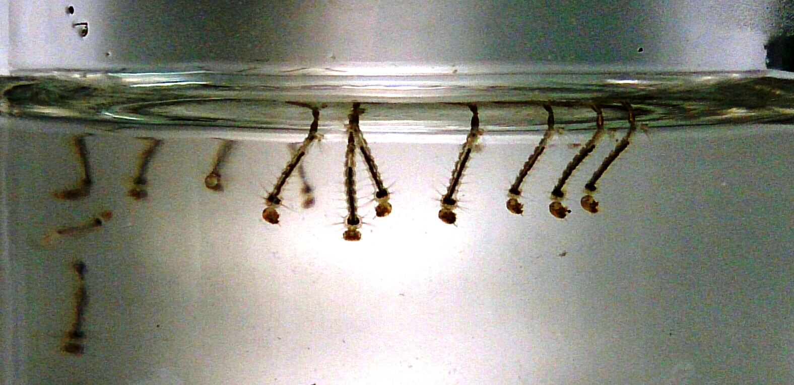 Mosquitoes in the larva stage. Don't breed mosquitoes! They can cause dengue fever!